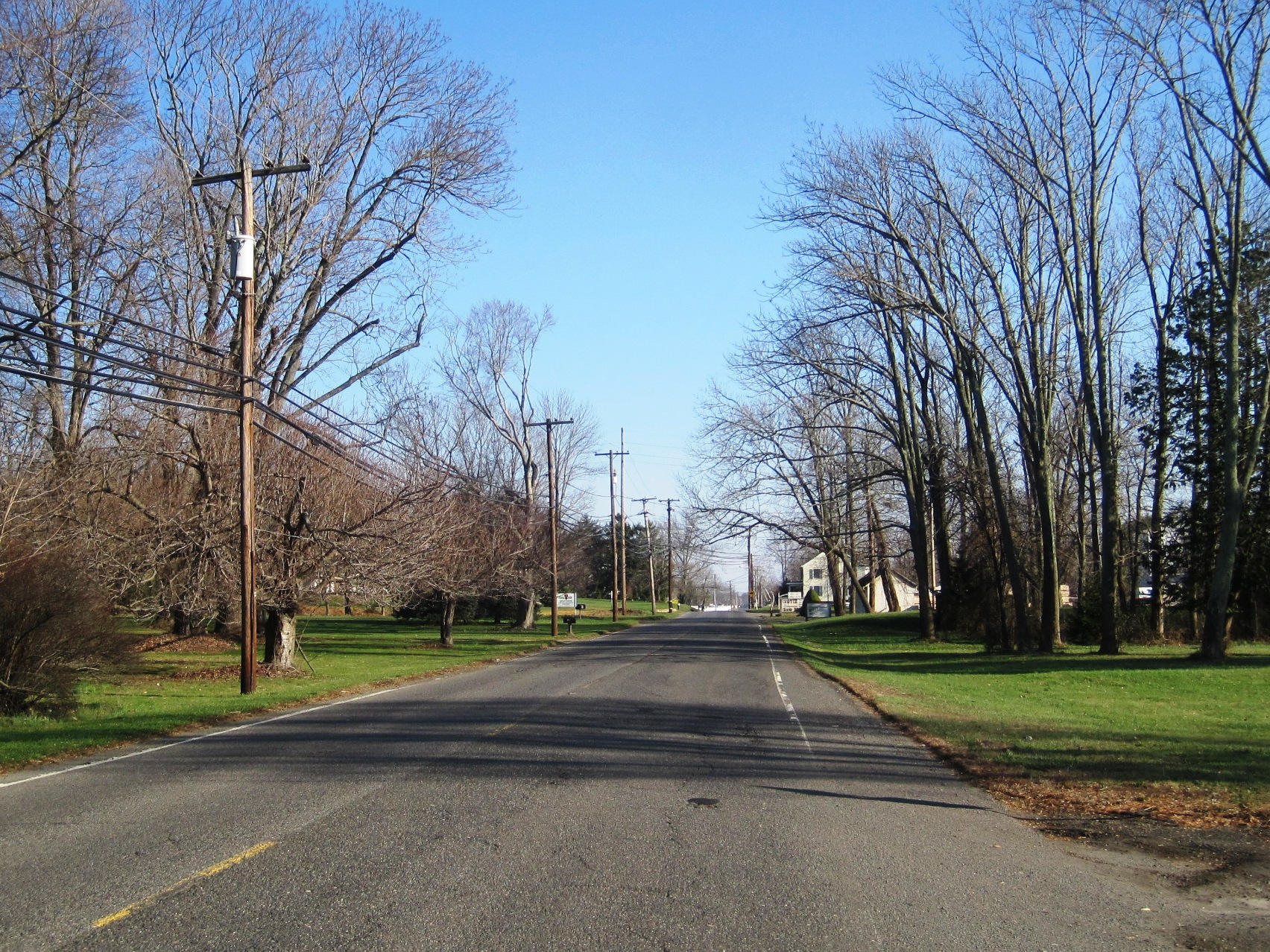 Photo of the unincorporated community of Nelsonville, New Jersey within Upper Freehold Township. Photo taken on eastbound County Route 526 past Sharon Station Road approaching the former Pemberton & Hightstown Railroad crossing.